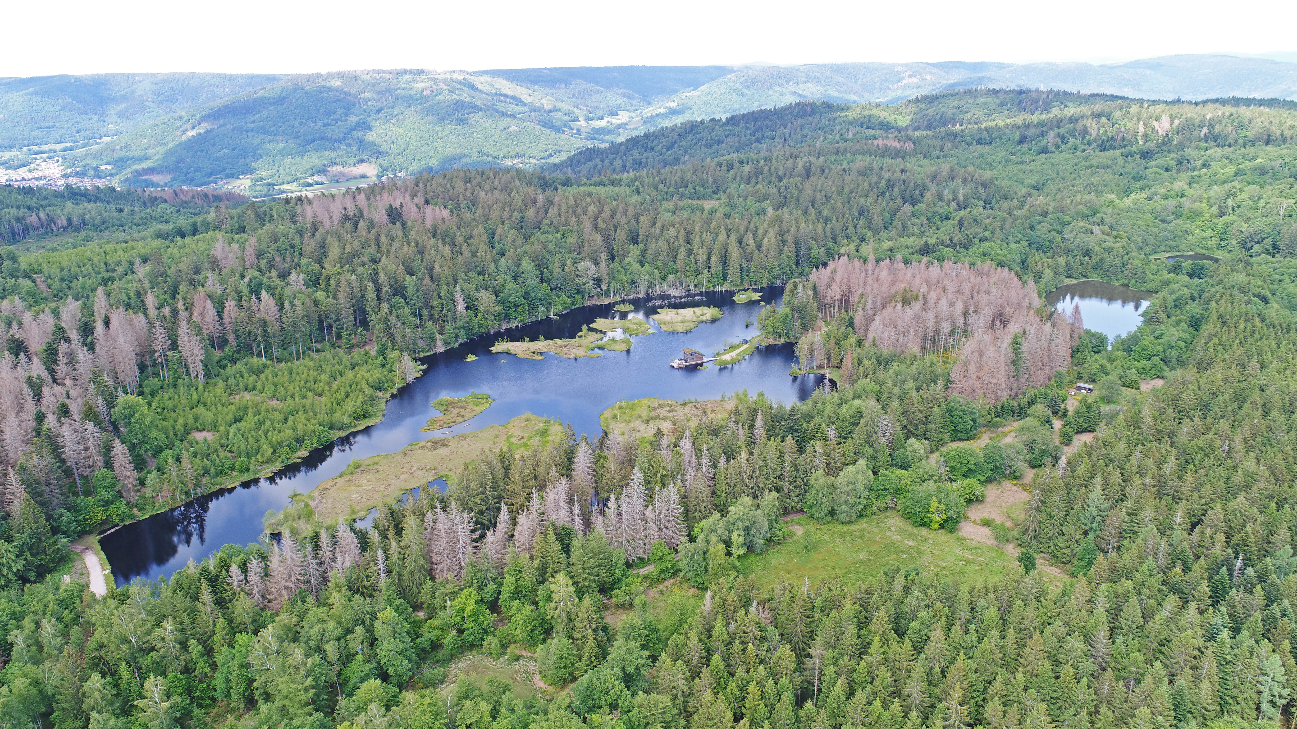 Étang de l'Oranger à Corravilliers sur le Plateau des mile étangs.